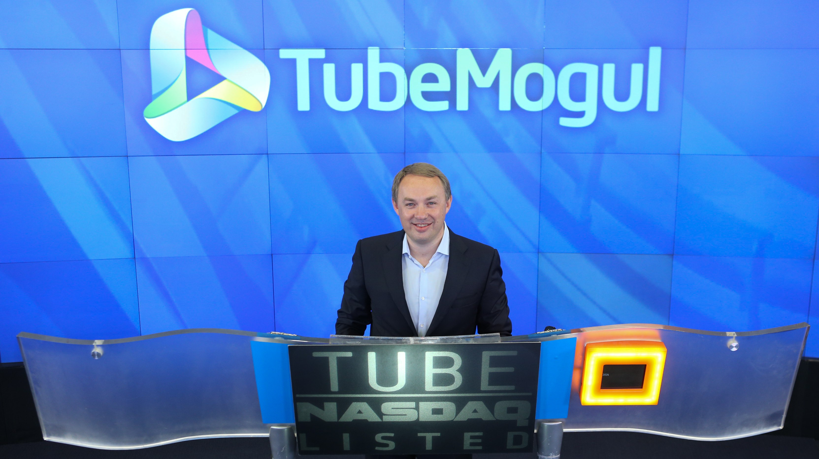 TubeMogul rings open bell on July 18 2014, the first day they were publicly traded on the Nasdaq.